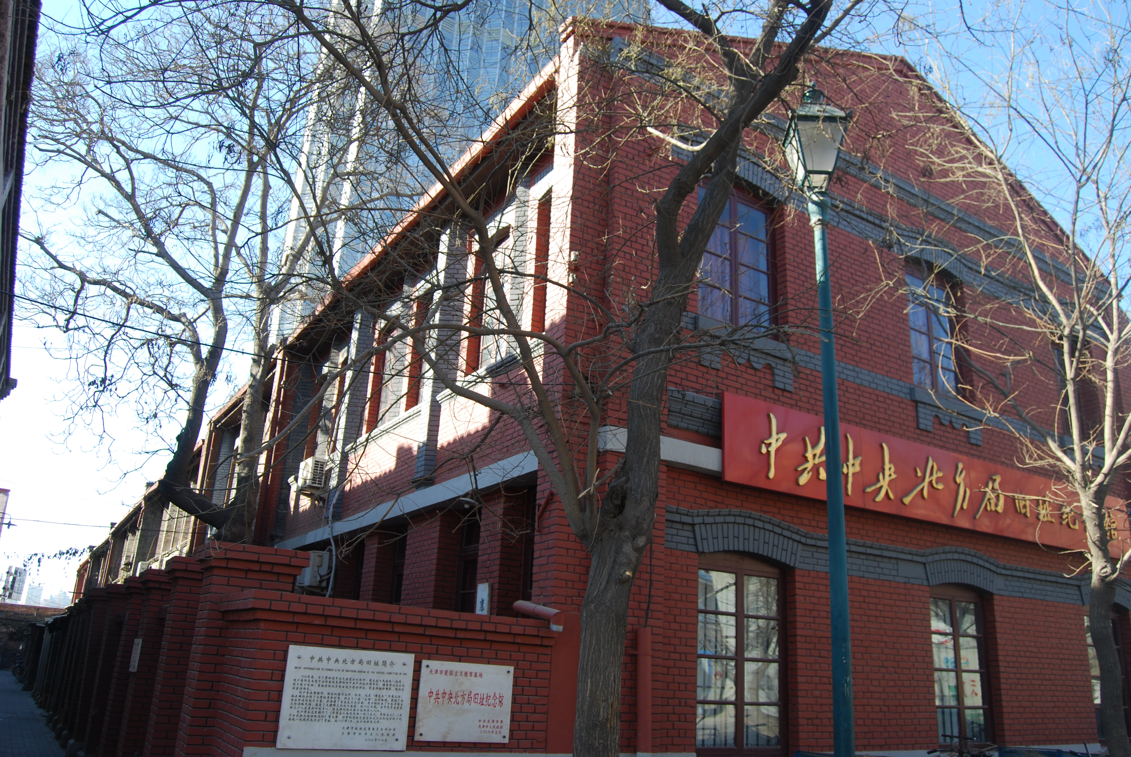 Former headquarters of North China CPC